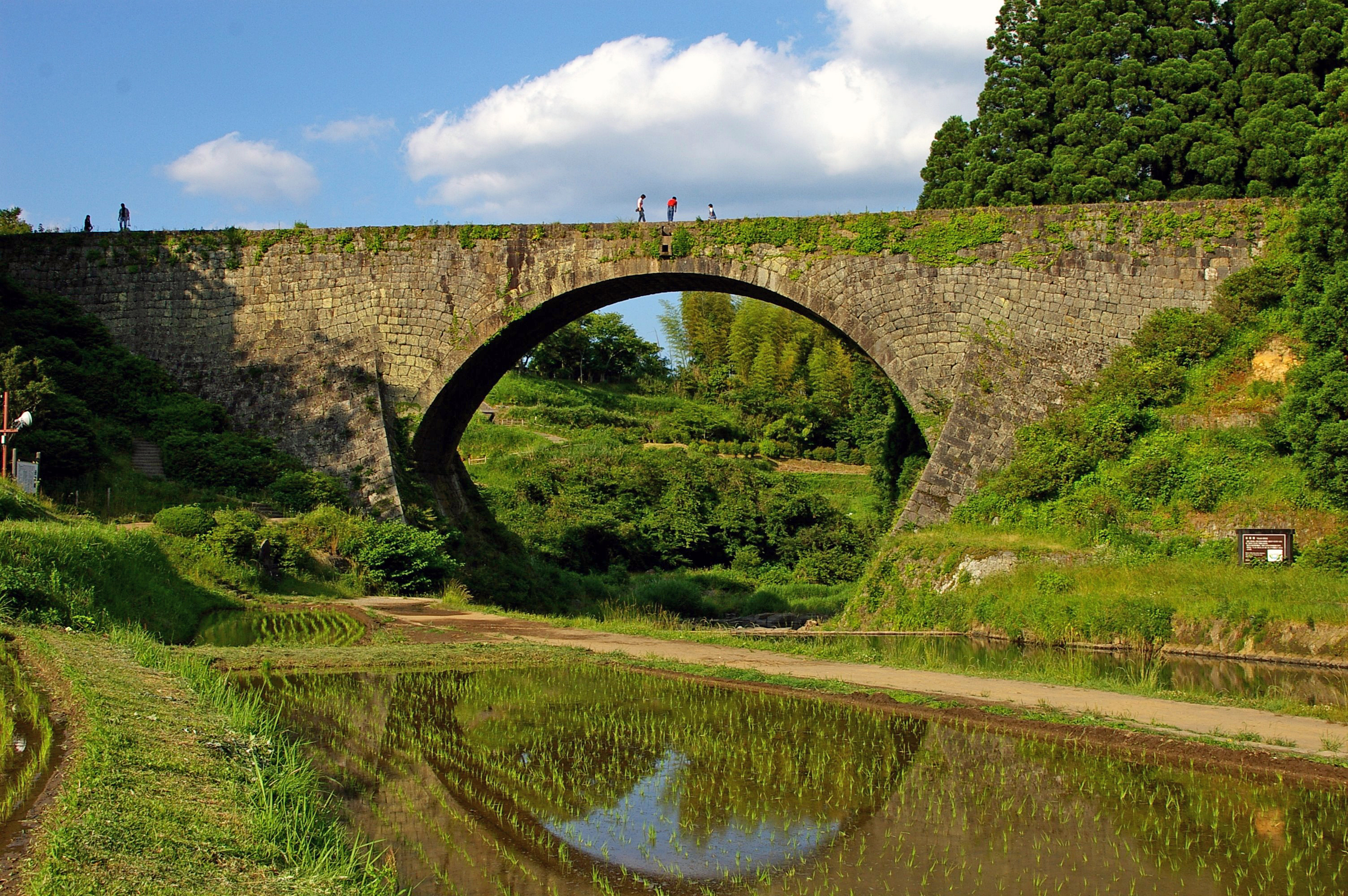 "通潤橋"(Tsu-jyun-kyo); The aqueduct bridge of stone construction with fixed-arch architecture in Yamato Town, Kumamoto Pref., Japan. It was constructed in 1854(the Edo period).